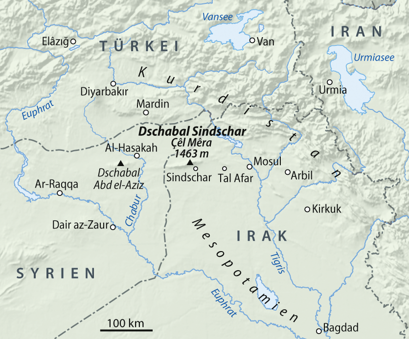 General map of the location of the Sinjar Mountains